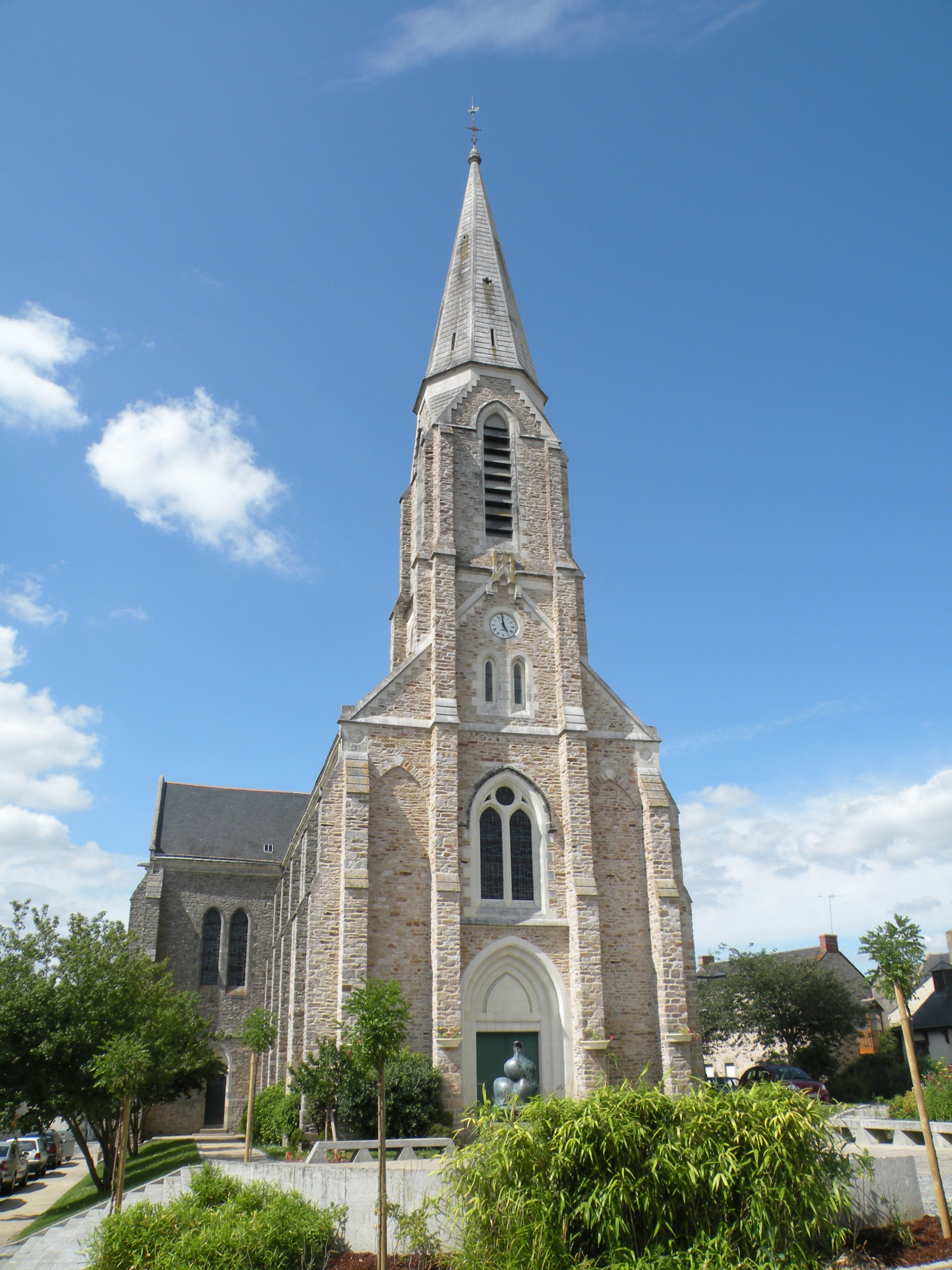 Church of Malville